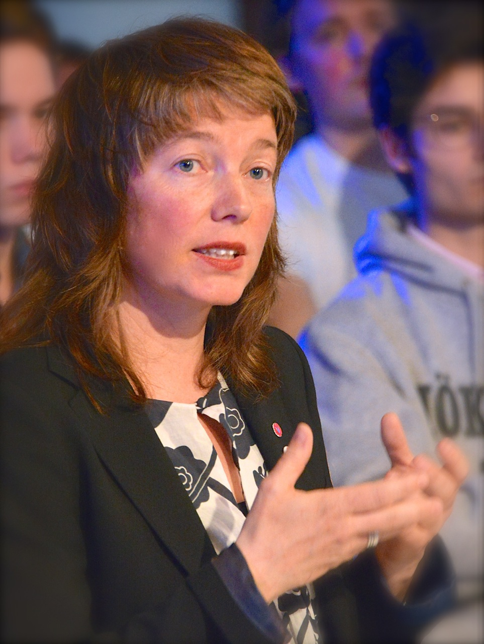 Malin Björk in a panel discussion May 21, 2014 for the European elections.